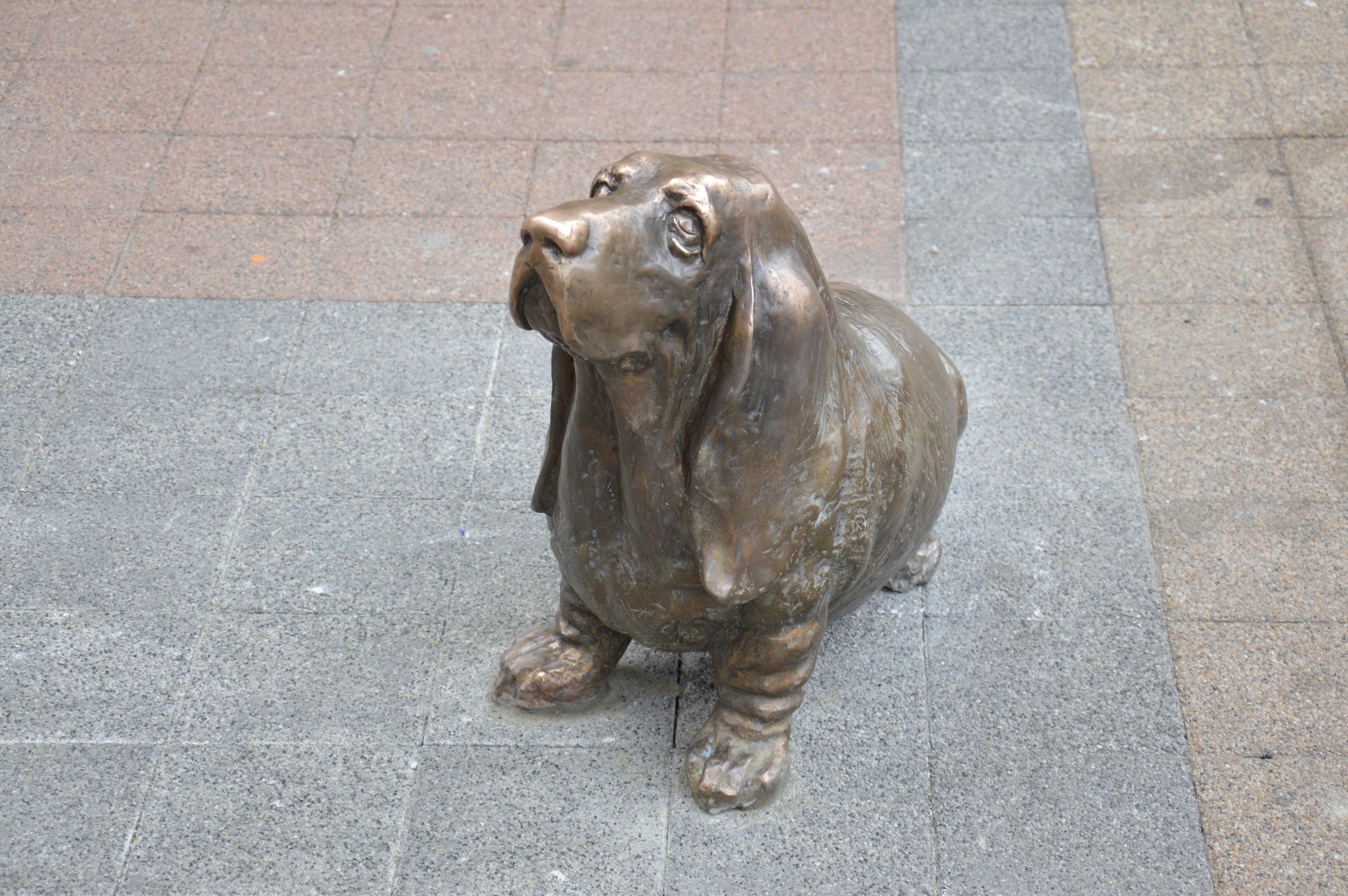 Géza Dezső Fekete's statue of Columbo's dog on Falk Miksa utca in Budapest